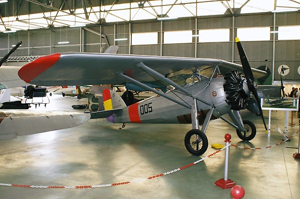 Another view of the Morane-Saulnier MS230, 4/10.